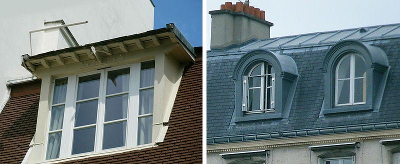 Mansarde in Paris